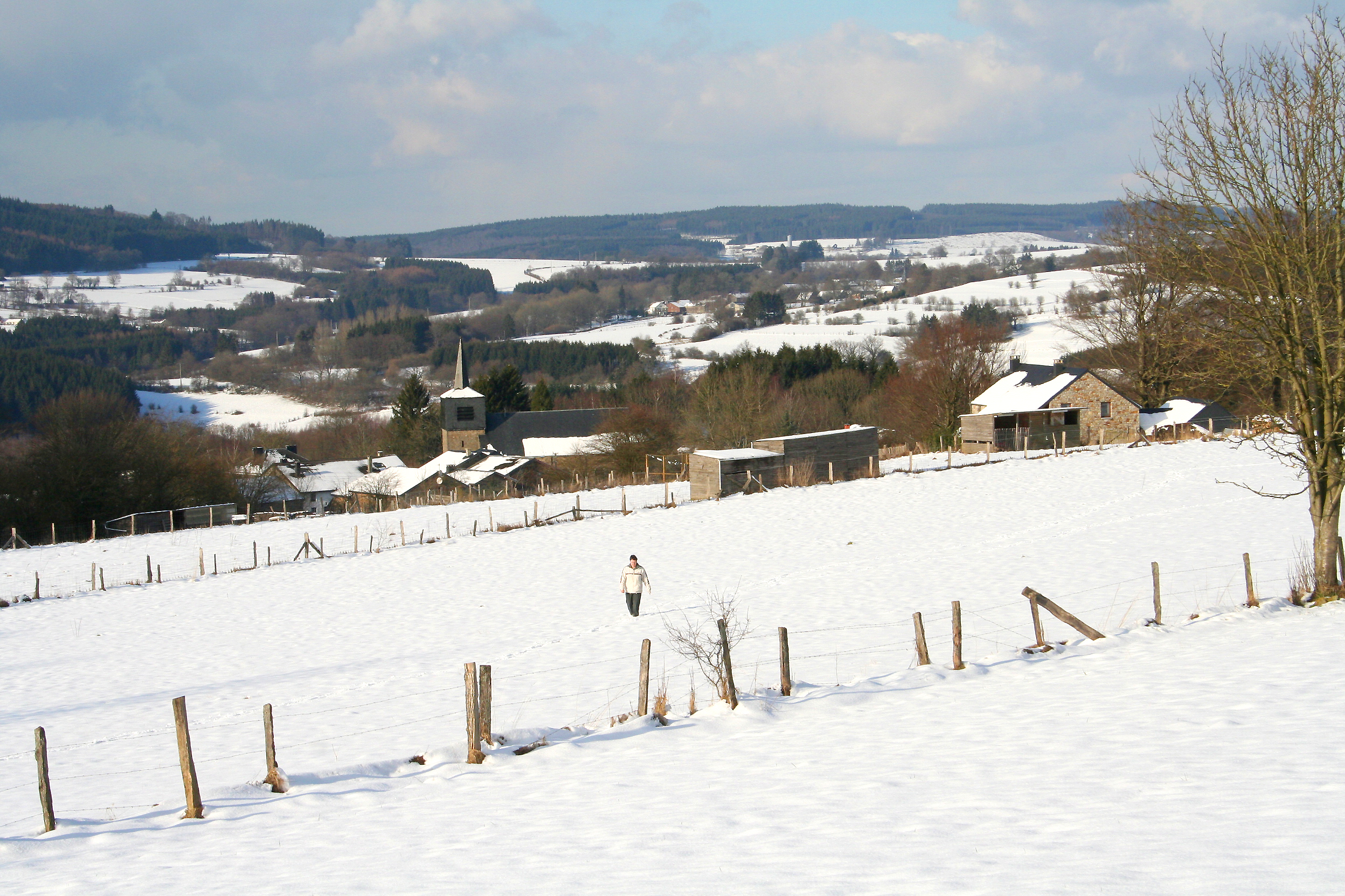 Freyneux (Belgium), the village in the winter.